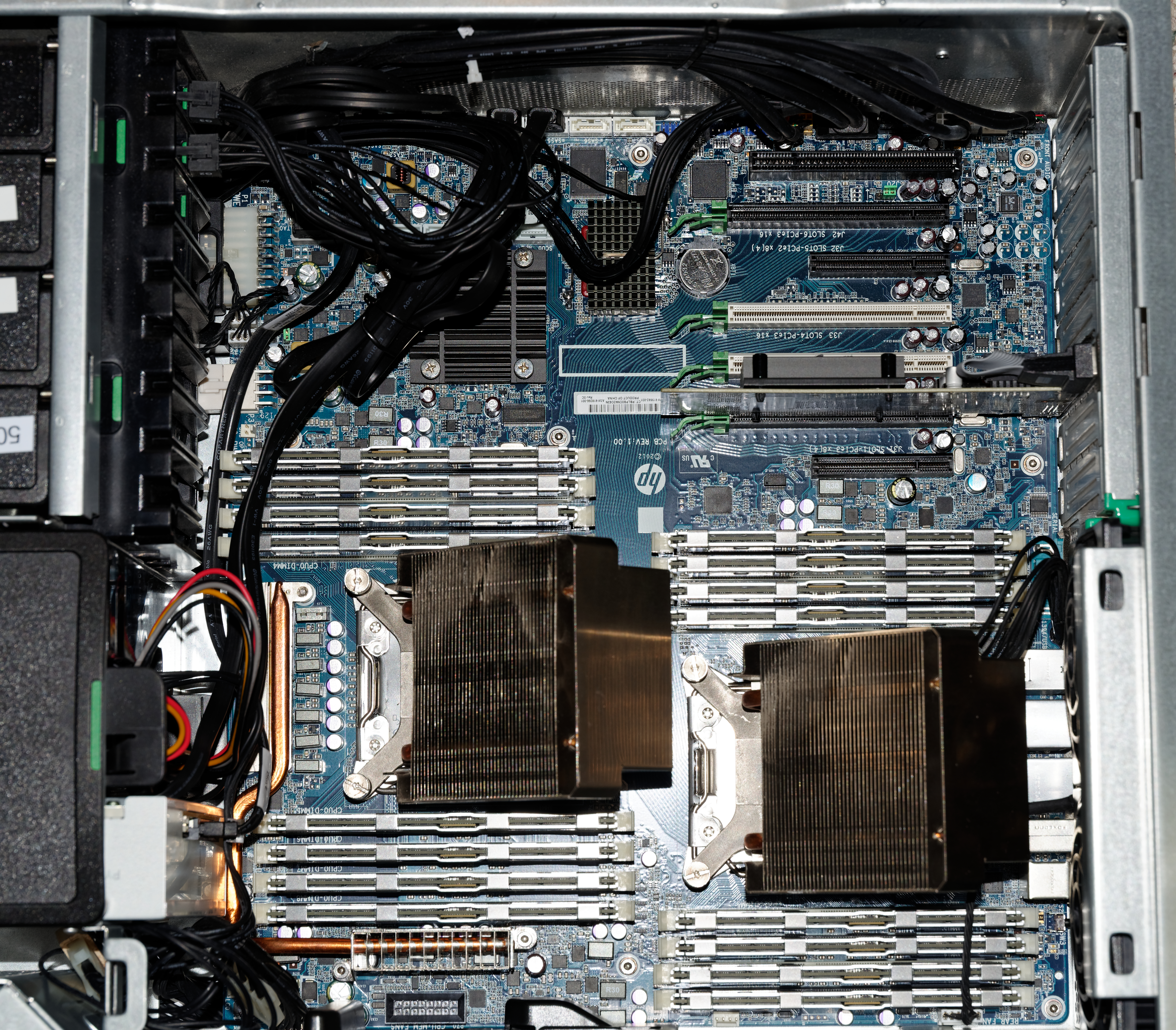 Inside an HP Z820 workstation, showing two CPUs and memory